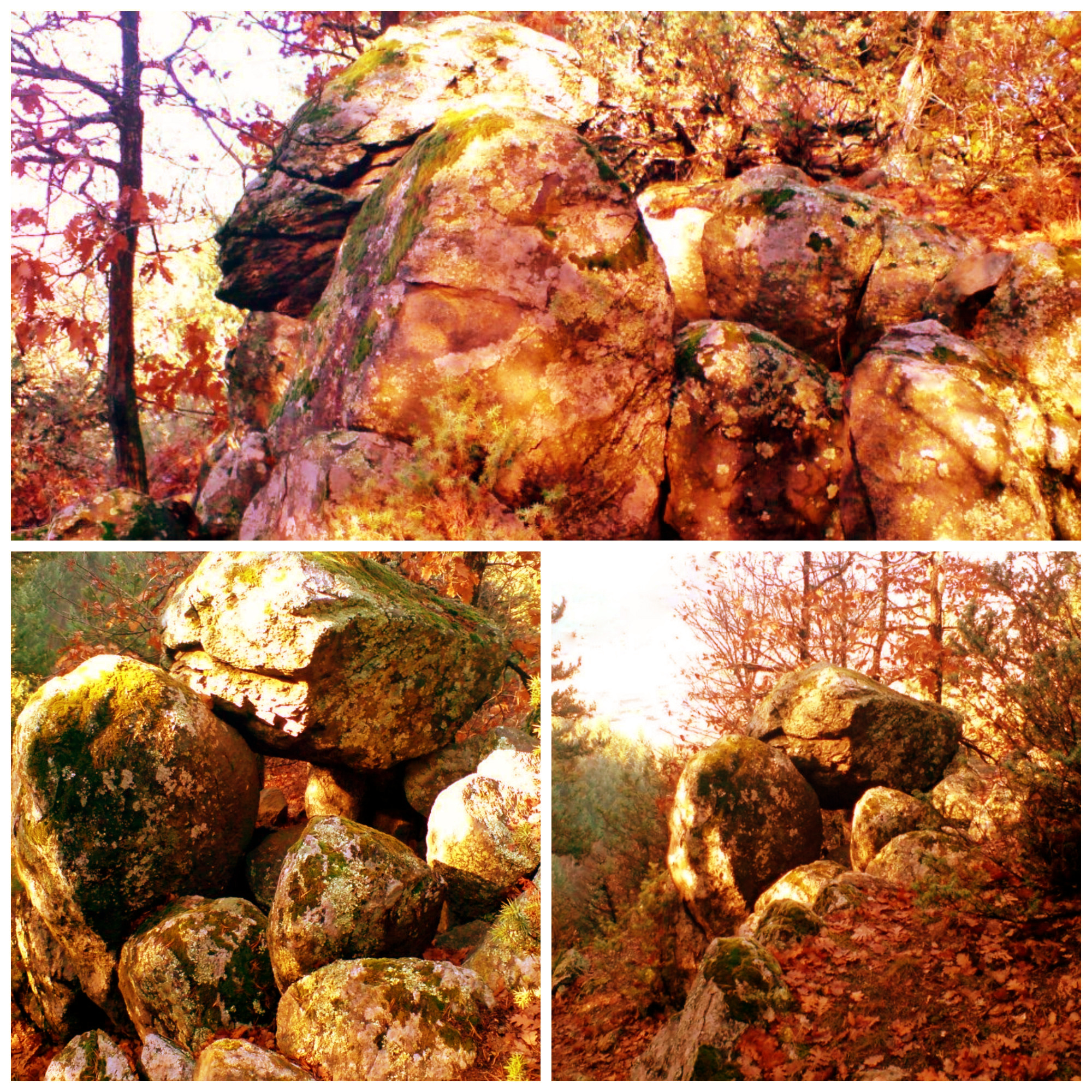 Nebush_arc_Eleshnitza_BG